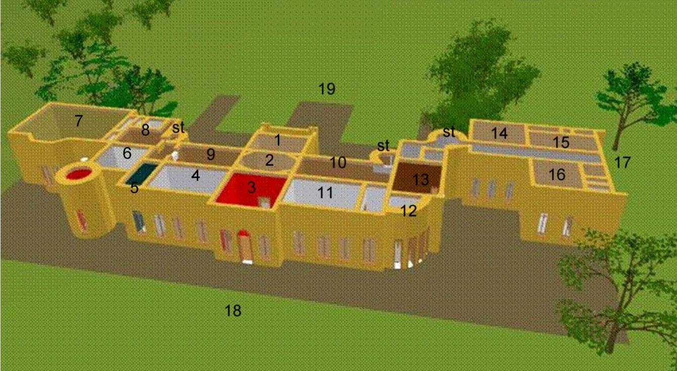 Plan of Waddesdon Manor